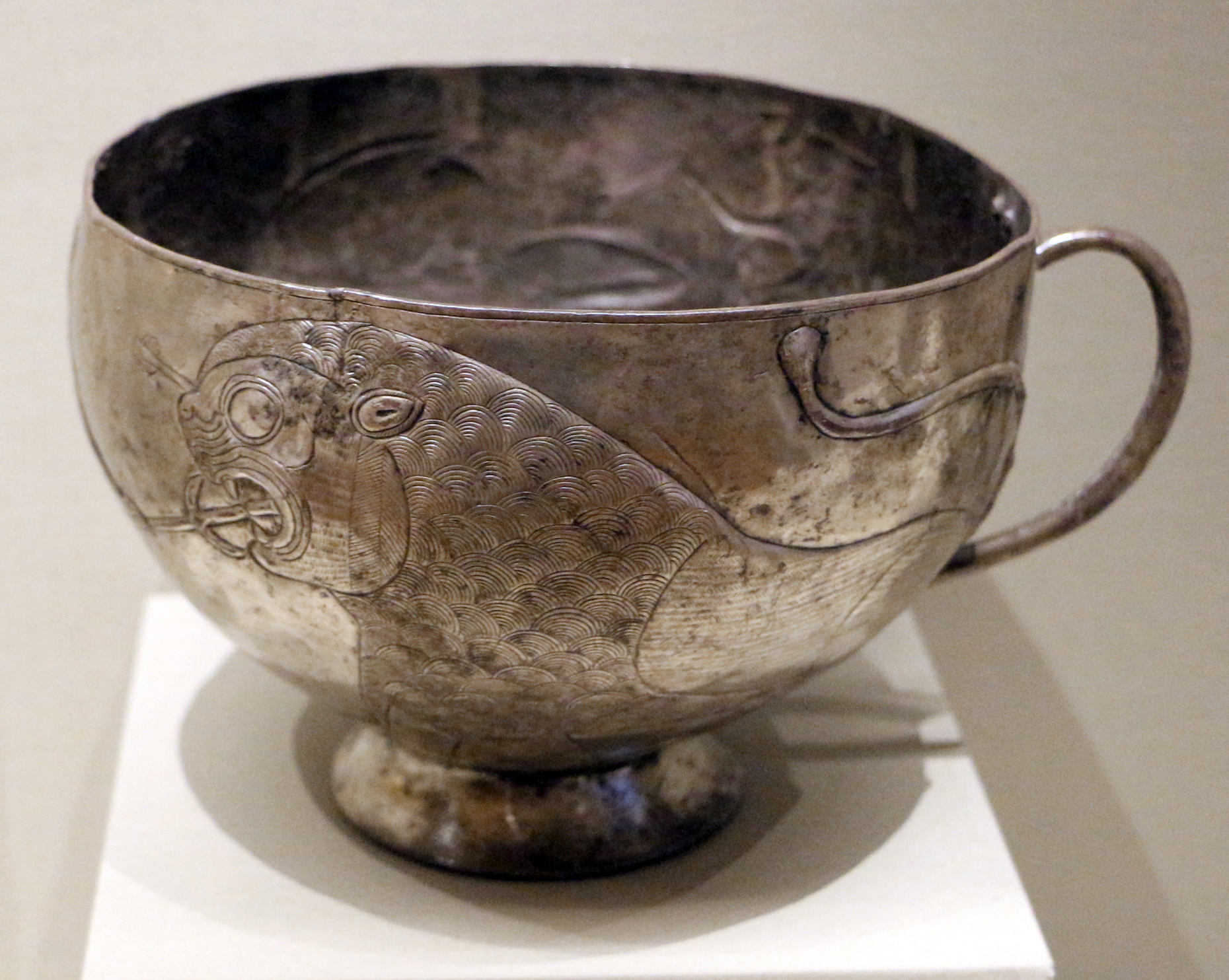 Near East antiquities in the Cleveland Museum of Art